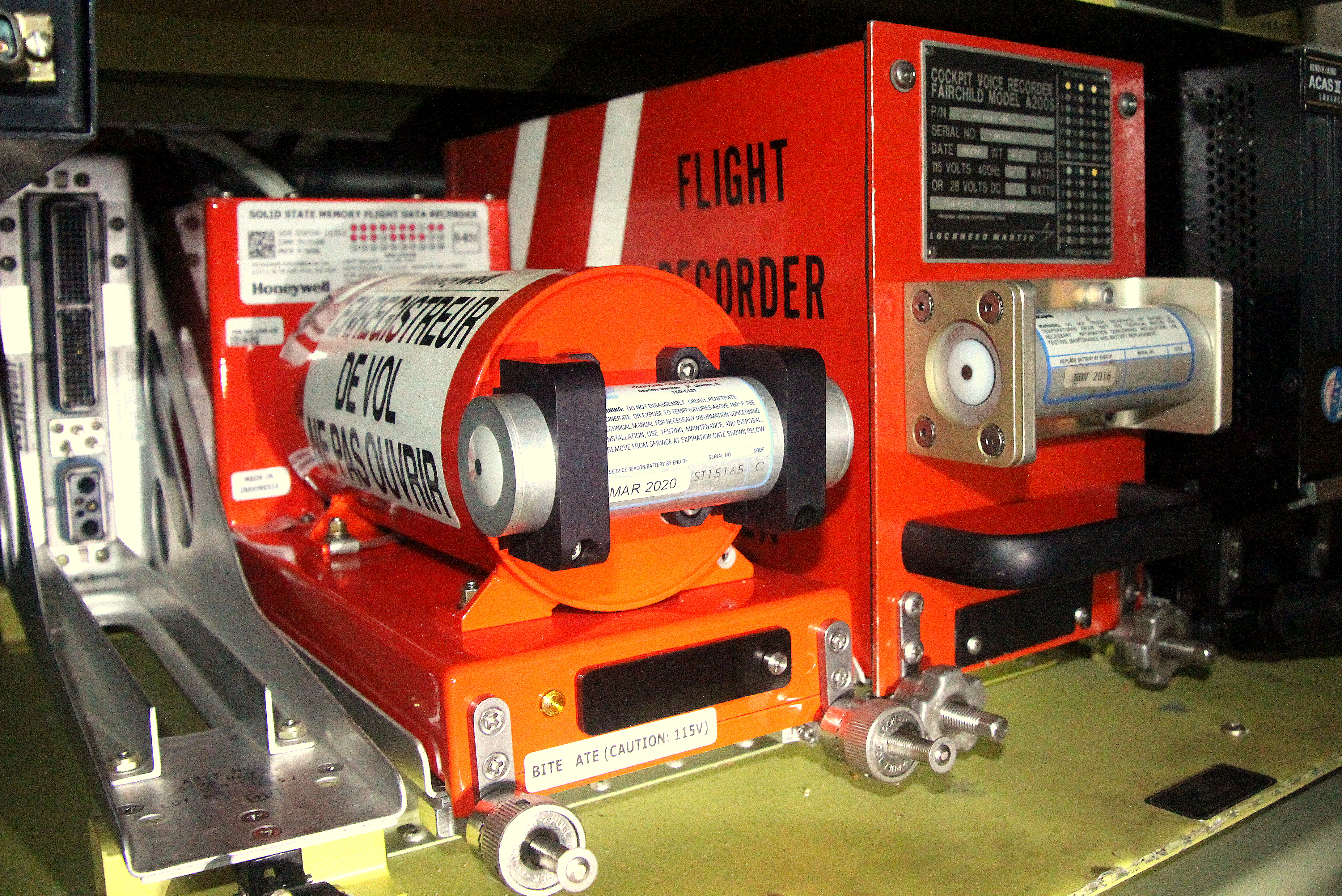 A Flight Data Recorder (left) and Cockpit Voice Recorder (right) mounted in the rear fuselage of an aircraft. Each has an Underwater Locator Beacon mounted in brackets on its front.